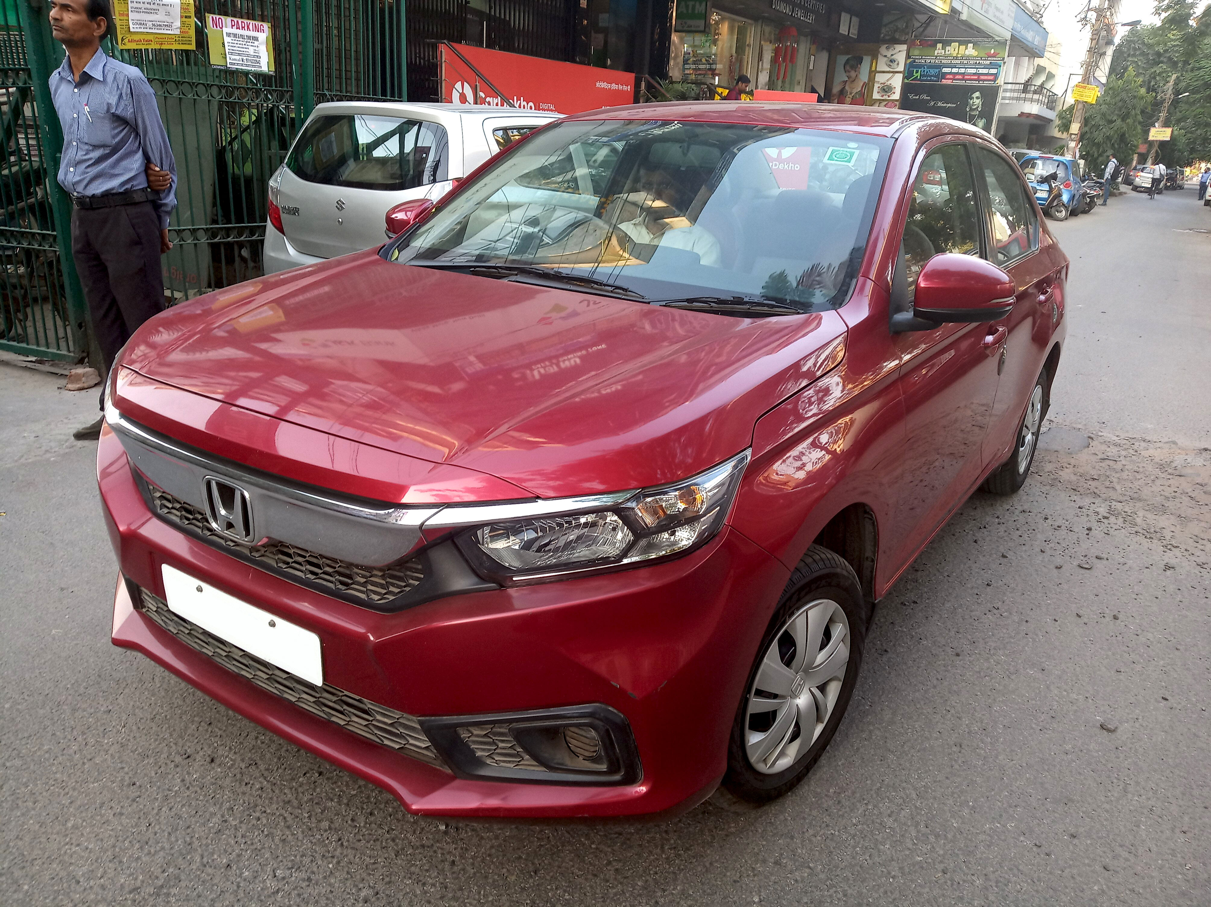 Honda Amaze 2018 (front) in Uttar Pradesh